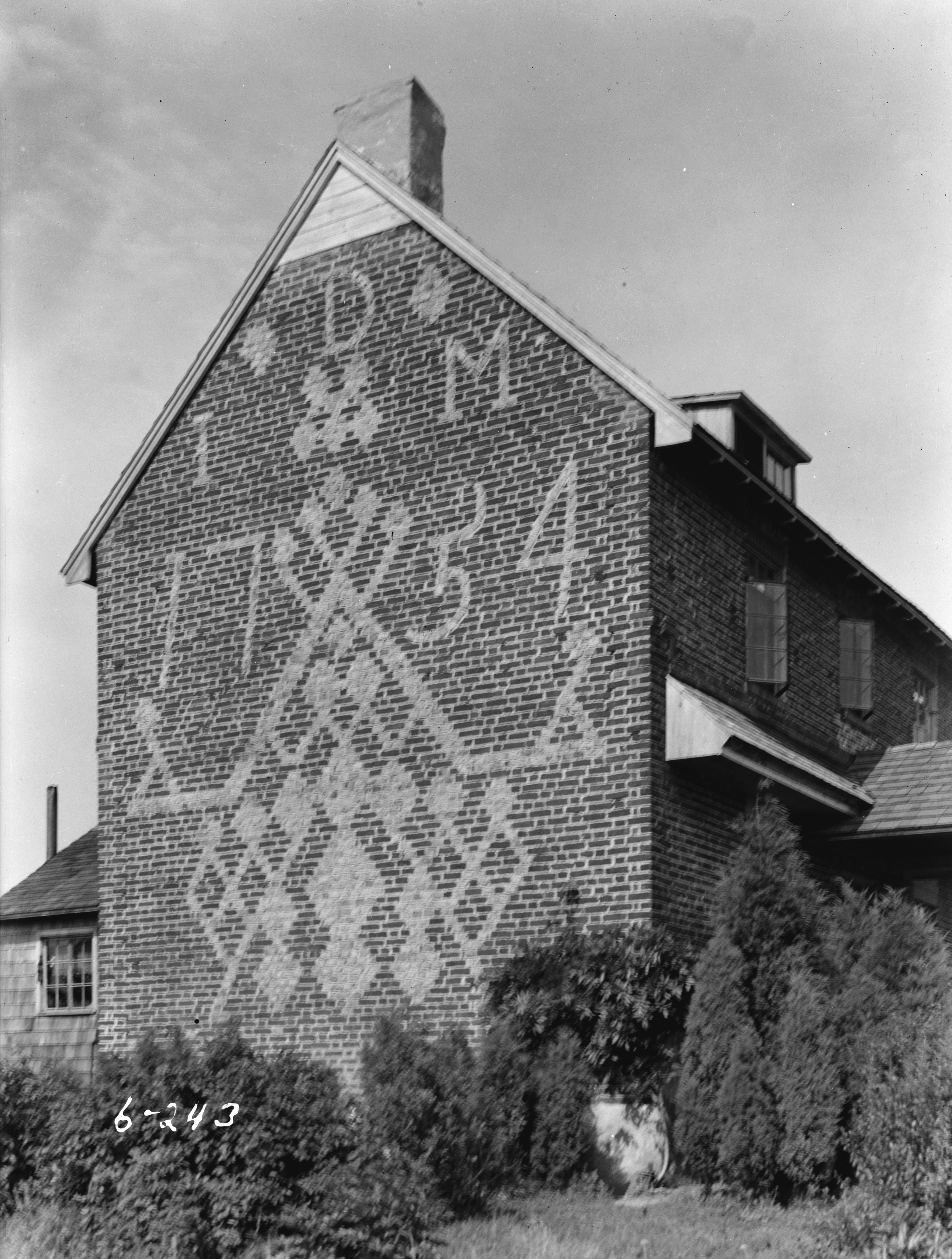 Dickinson House in Salem County, New Jersey, on the NRHP since February 20, 1975. Located NE of Alloway on Brickyard Rd. Noted for design in glazed brick giving date of construction (1754) and initials of builders. Photo from the Historic American Buildings Survey